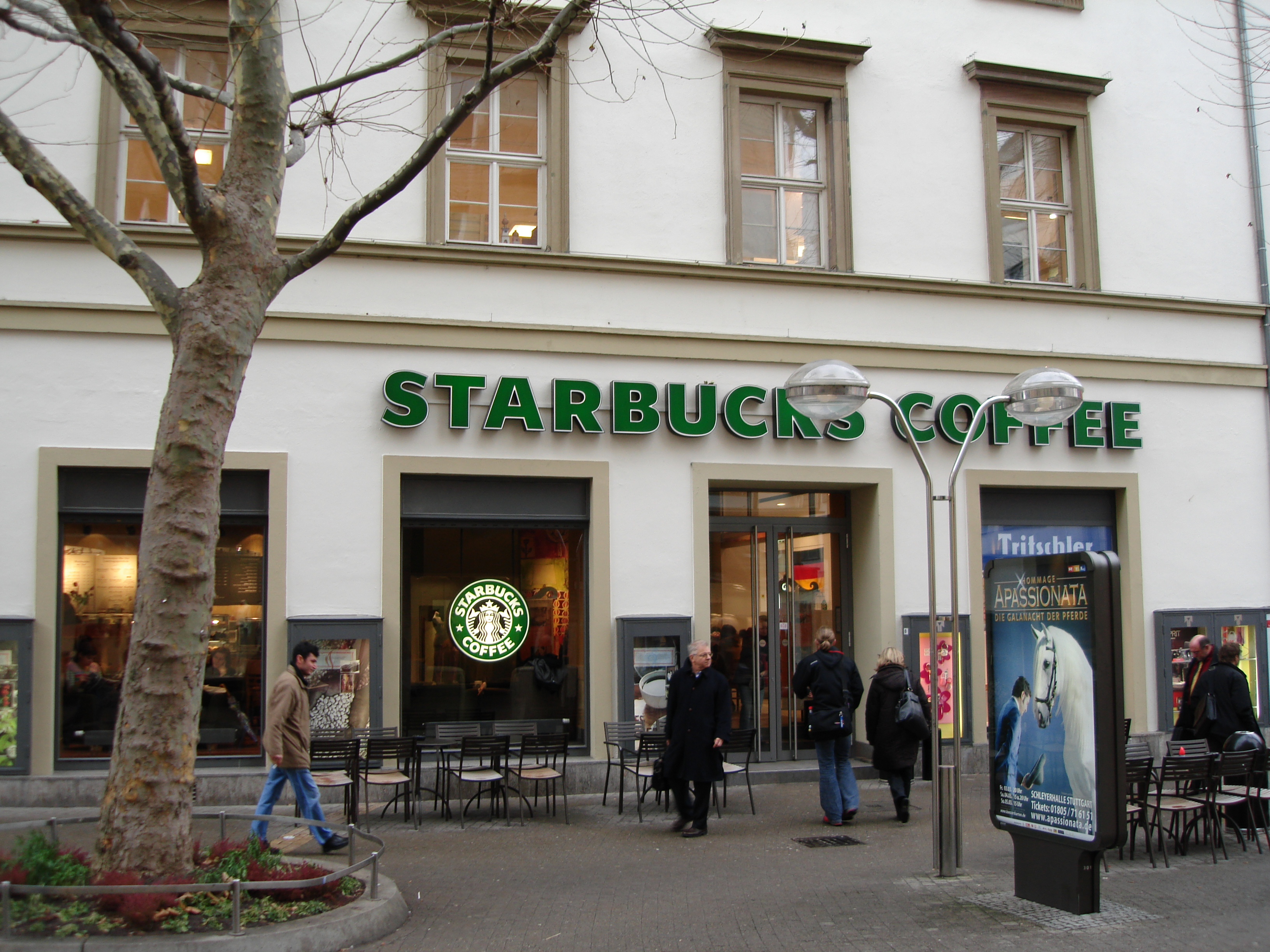 Starbucks in Stuttgart